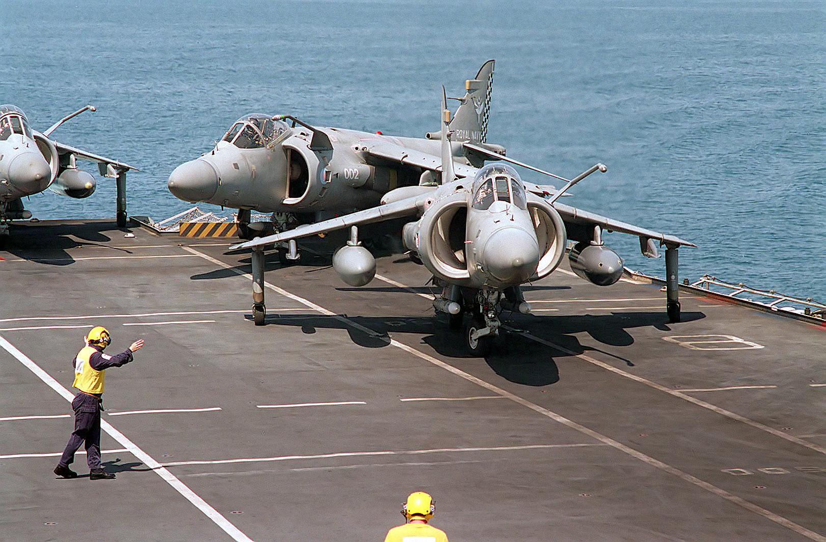 Royal Navy crewmen aboard the Invincible-class aircraft carrier HMS Illustrious (R06), prepare a 801 Naval Air Squadron BAe Sea Harrier FA2 for take off from the flight deck on 12 March 1998. Illustrious was operating in the Persian Gulf.